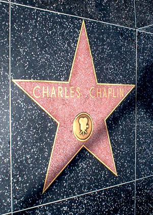 Charlie Chaplin's star on the walk of fame at hollywood